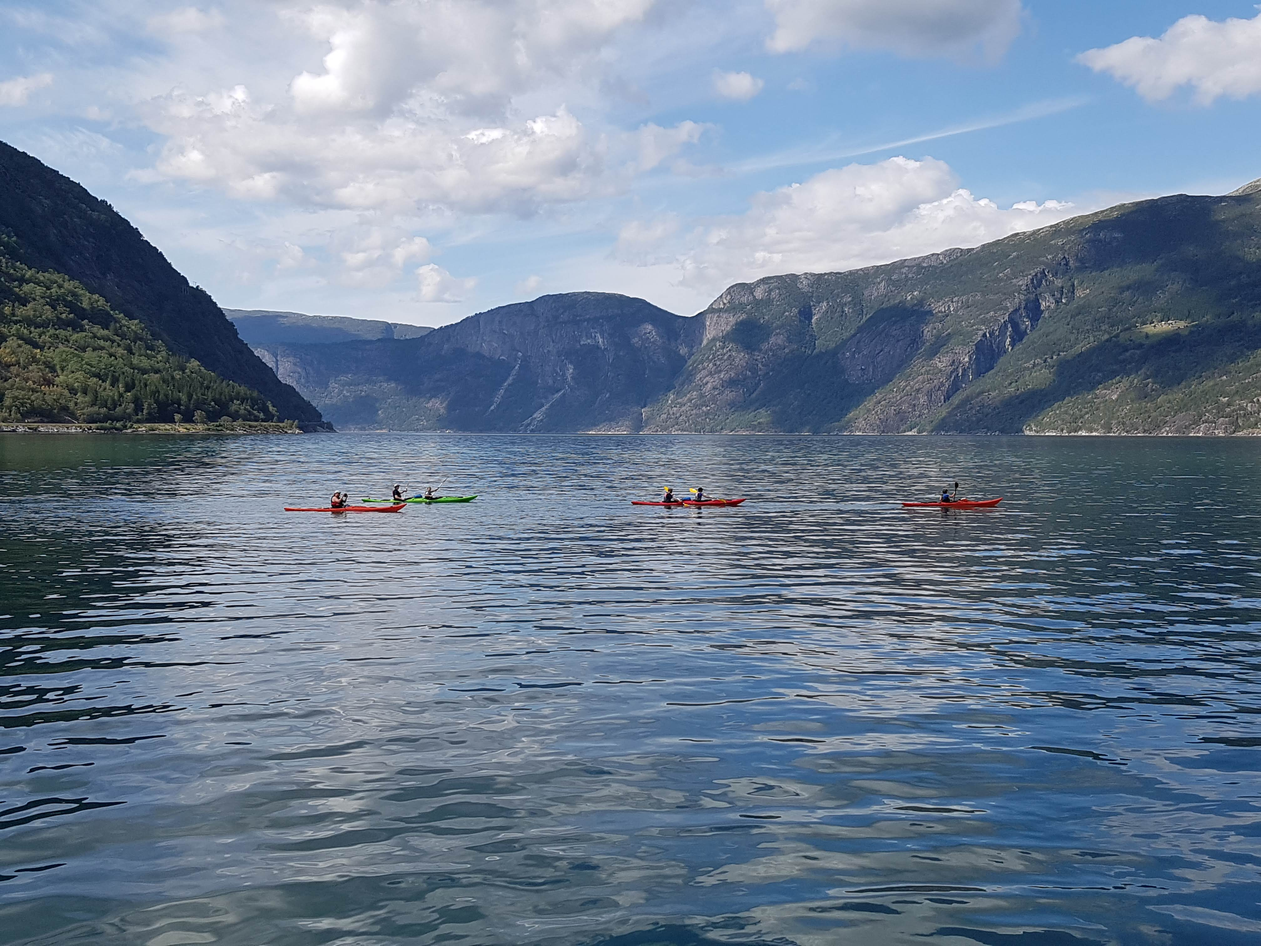 Kayakers at Eidfjorden near Eidfjord village, Hardanger, Norway